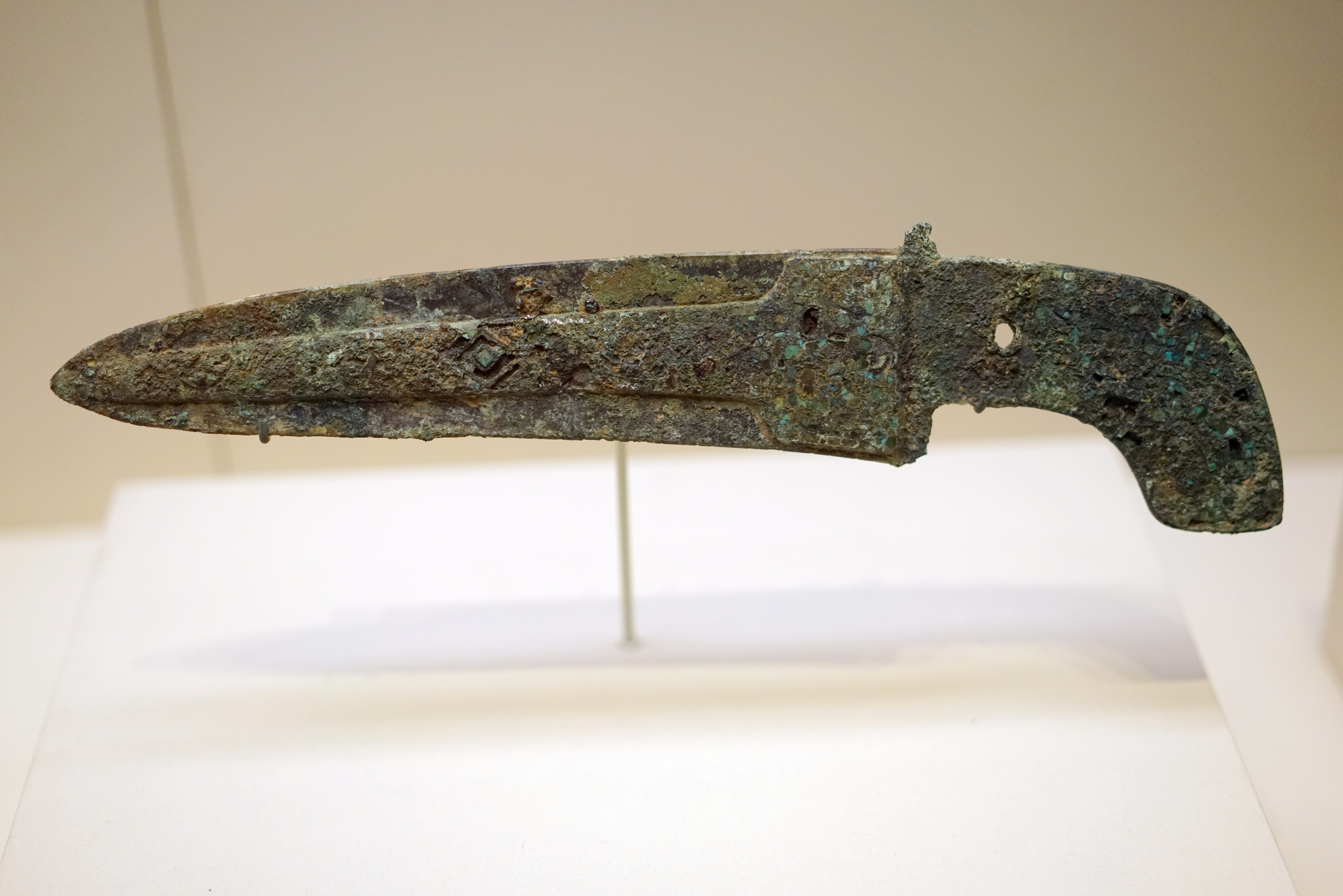 Bronze Ge (dagger-axe) Inlaid with Turquoise. Shang Dynasty (c. 16th-11th centuries BC), King Wu Ding's reign. Unearthed from tomb of Fu Hao at Yinxu, Anyang, Henan Province, 1976.